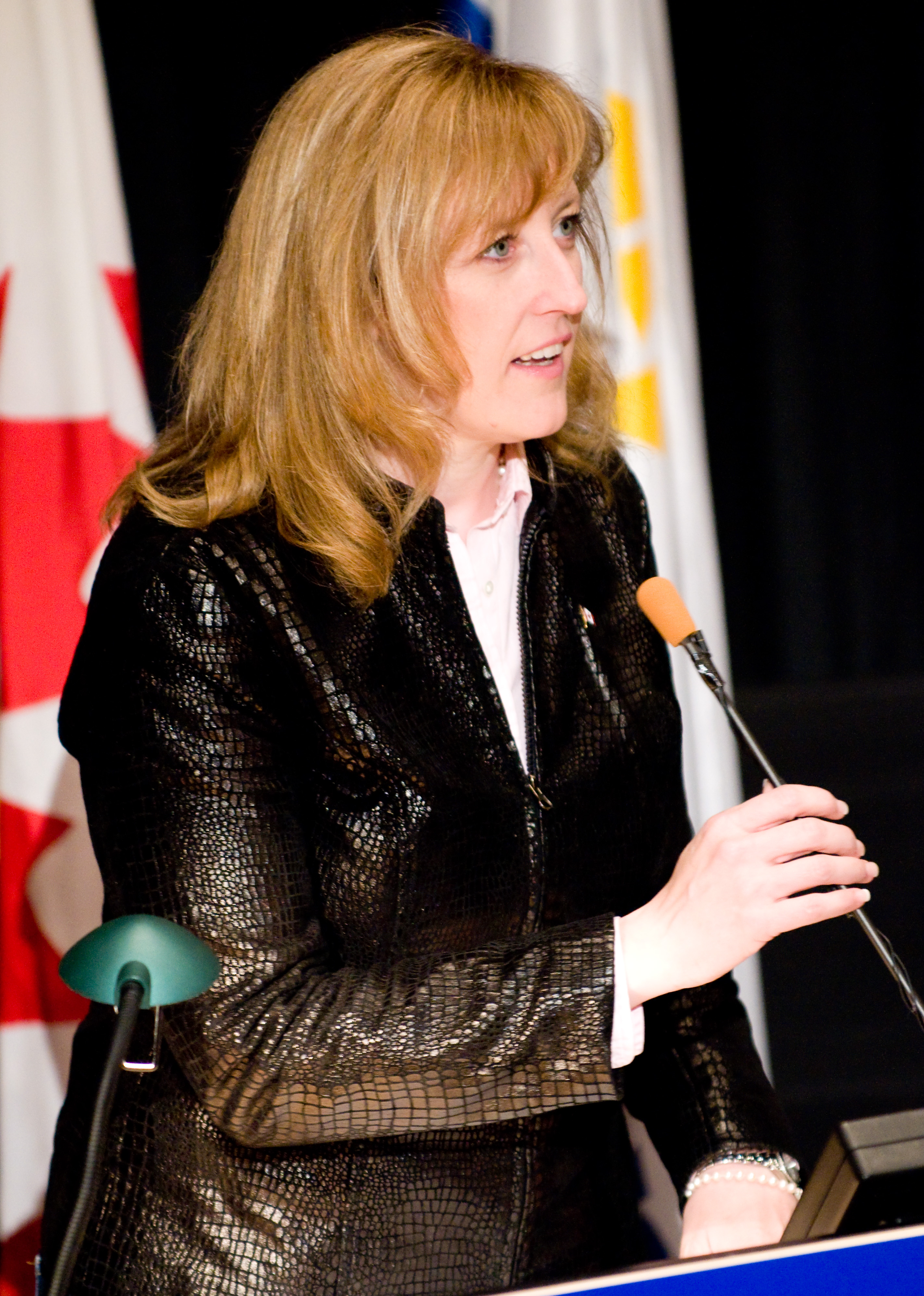 The Hon. Lisa Raitt, Minister of Natural Resources and MP for Halton Region, visited Sheridan today to present funding for student summer employment in the Public Sector.